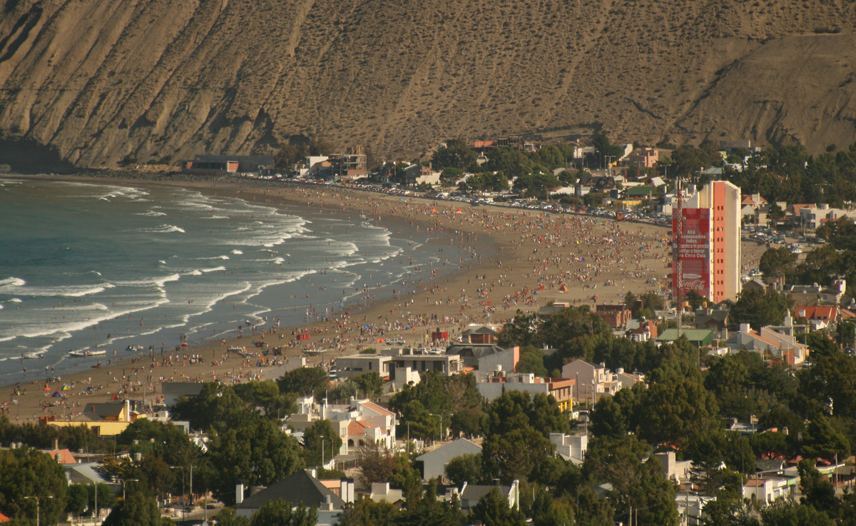 Rada Tilly Chubut Argentina Bellos paisajes, ubicado en la Provincia de Chubut, en la República Argentina.